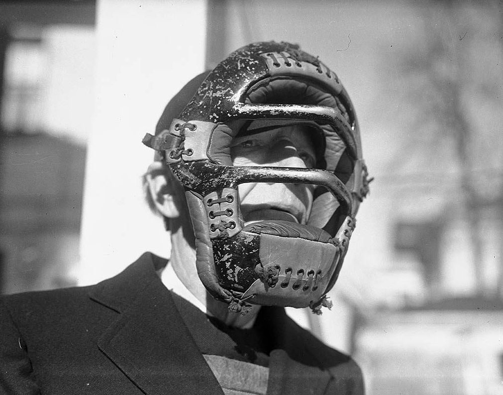 Baseball umpire in Toronto, Ontario, Canada